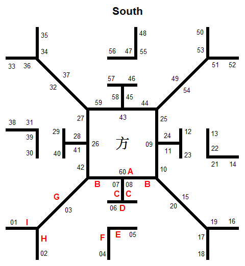 Schematic diagram of the Yinwan Han dynasty Liubo divination diagram, showing the positions of the sixty terms of the sexagenary cycle (following the corrections of Zeng Lanying) and examples of the nine board positions (labelled A-I).